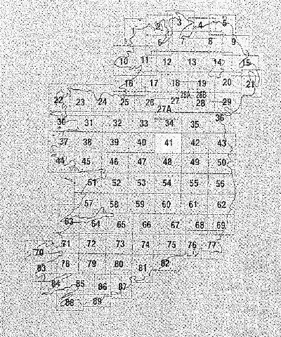 Gavigan 21/02/2007 OSI EIRE ~~IGN France